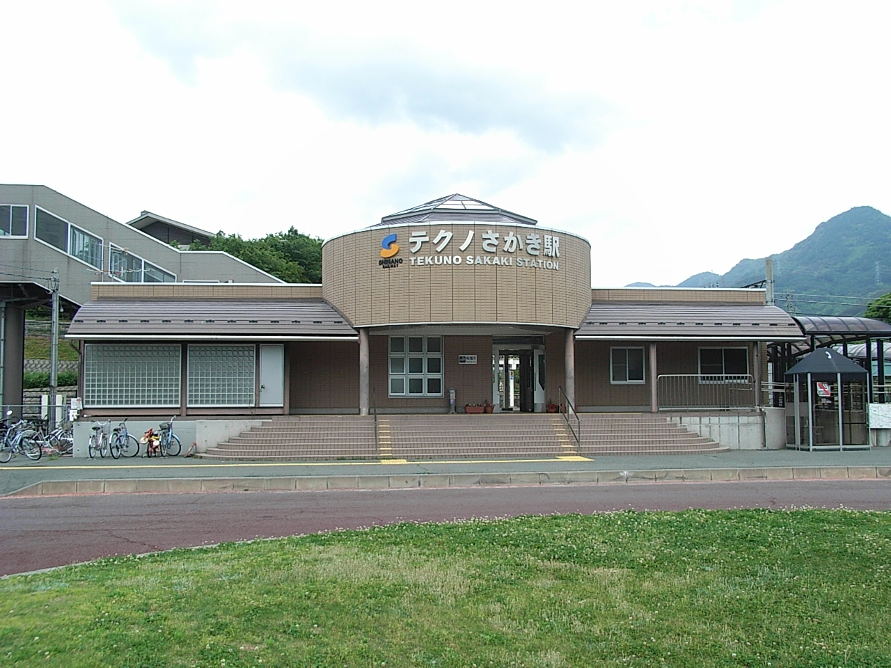 Tekuno-Sakaki Station on Shinano Railway. (4910-5,Minamijo,Sakaki-machi,Hanishina-gun,Nagano-ken,JAPAN)